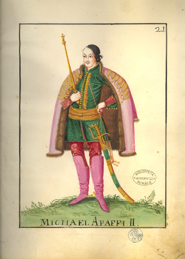 From Trachten-Kabinett von Siebenbürgen album. Drawn in 1729, based on the 1692 watercolours of an artist from Graz Given to the Romanian Academy by Baron Ludovic Czekelius of Rosenfeld. Michael Apaffi II.